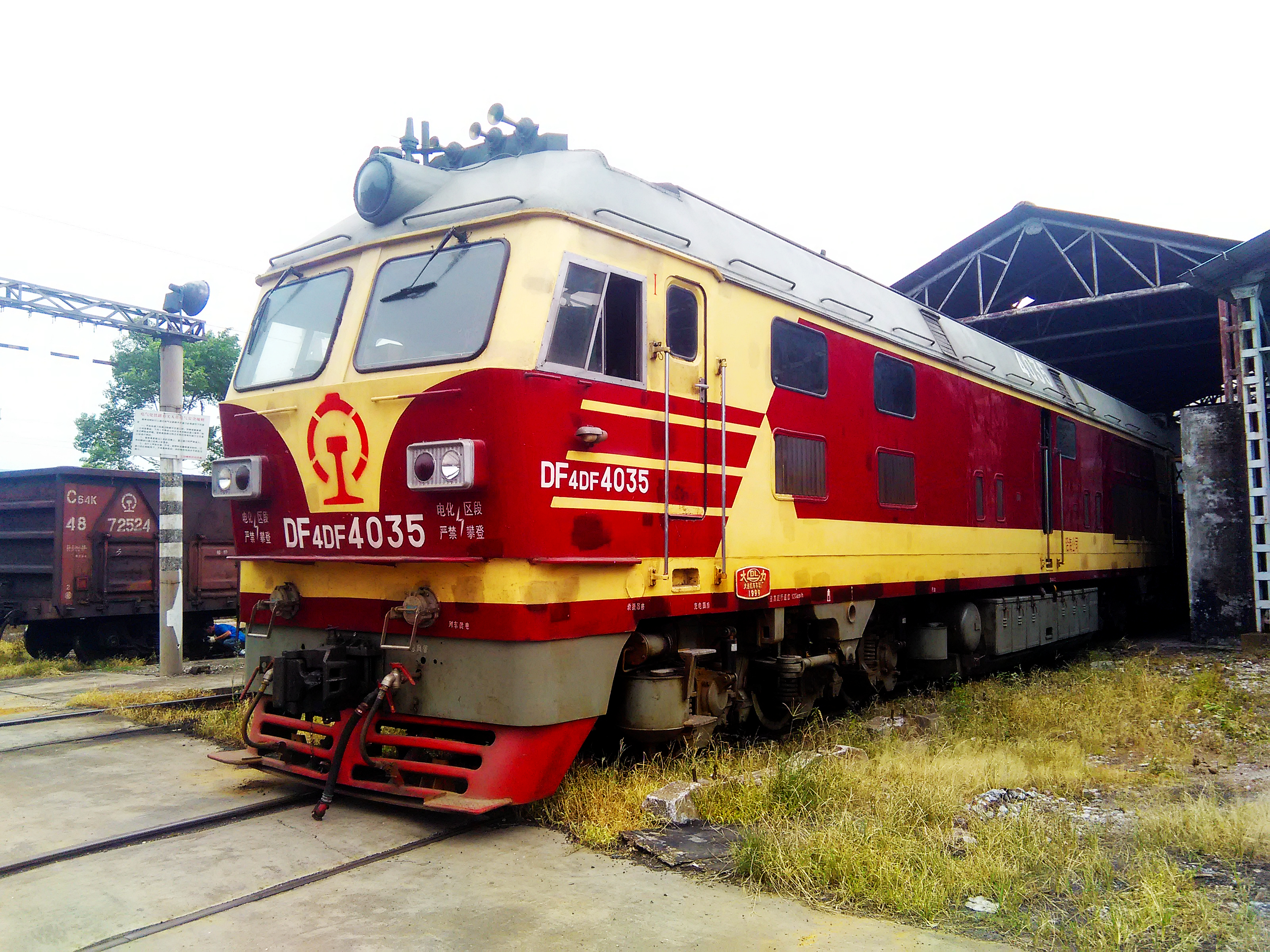 China Railways DF4DF 4035 in Liuzhou Locomotive and Rolling Stock Works. The locomotive belong to Nanning South Locomotive Depot, Guangxi Coastal Railway.